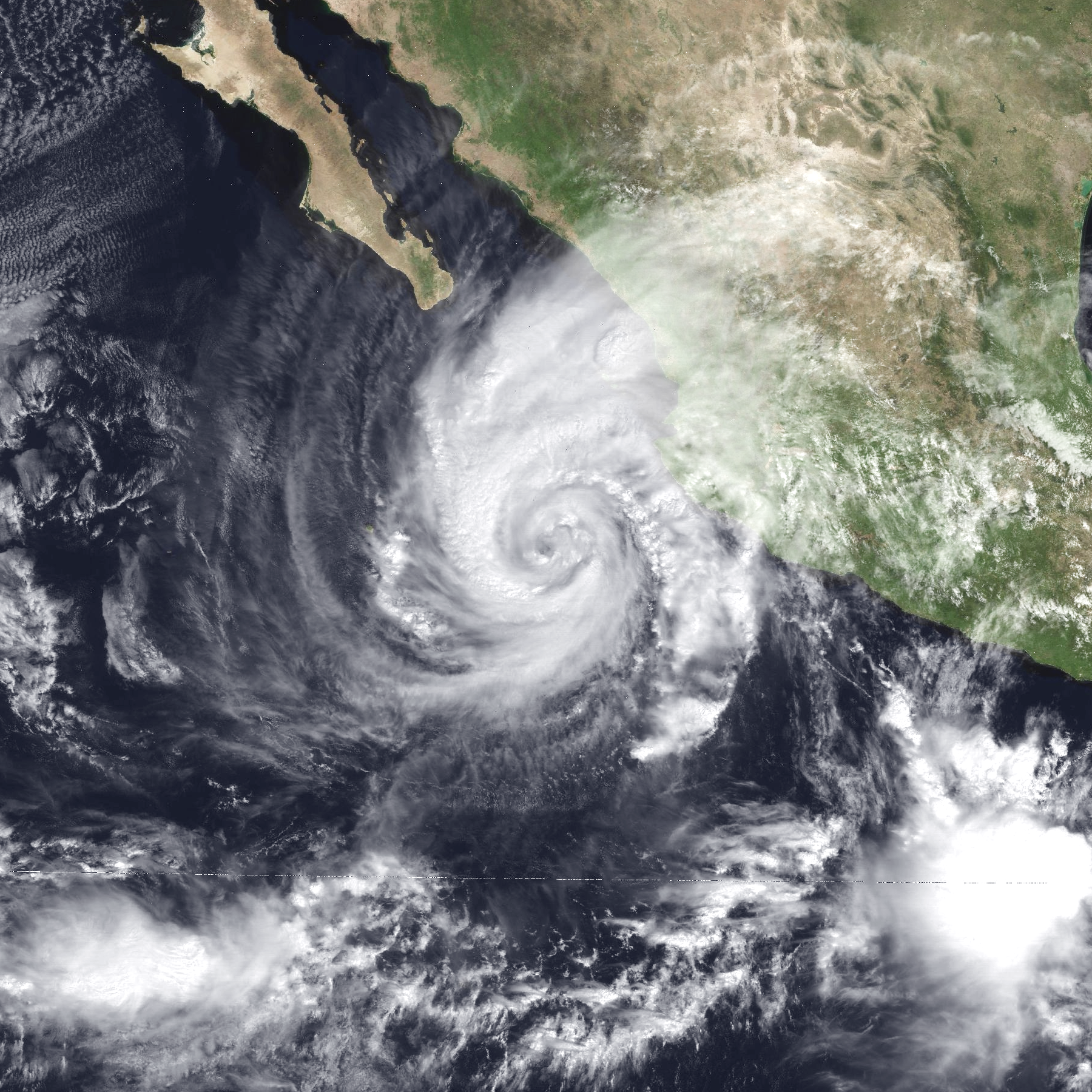 Hurricane Rosa near peak intensity off the southwest coast of Mexico on October 13, 1994